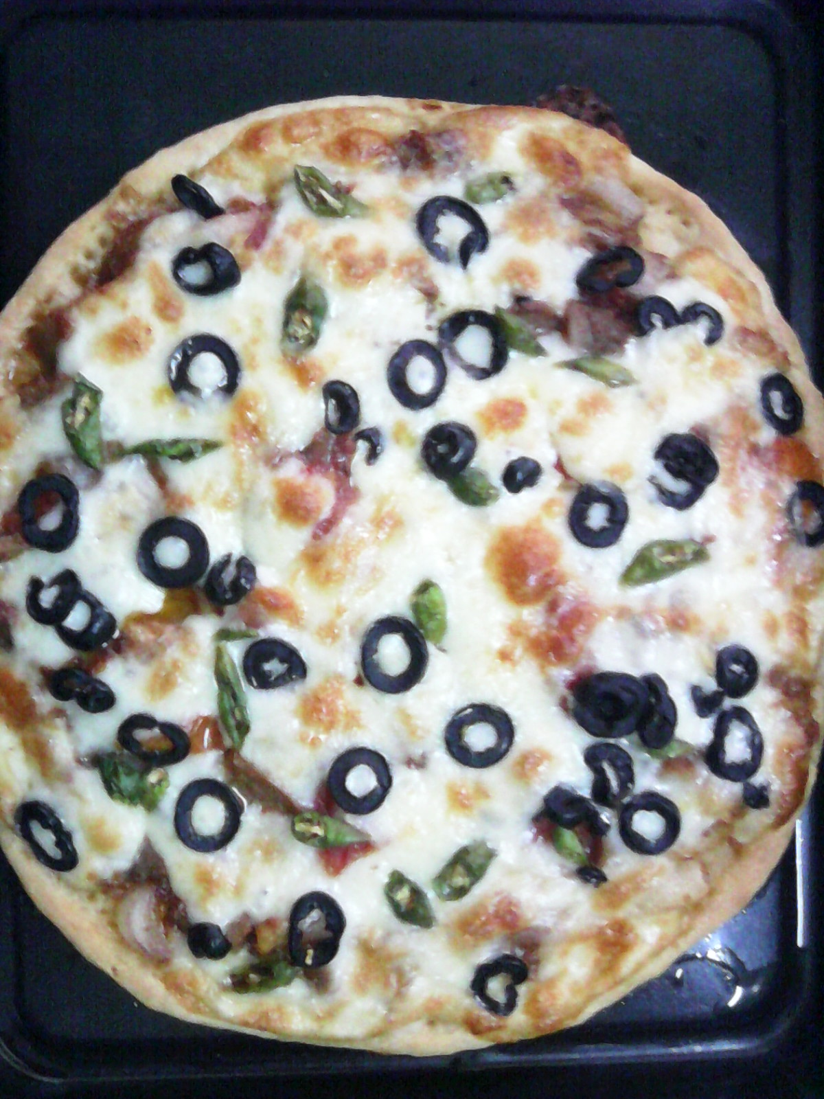 Beautiful homemade pizza made